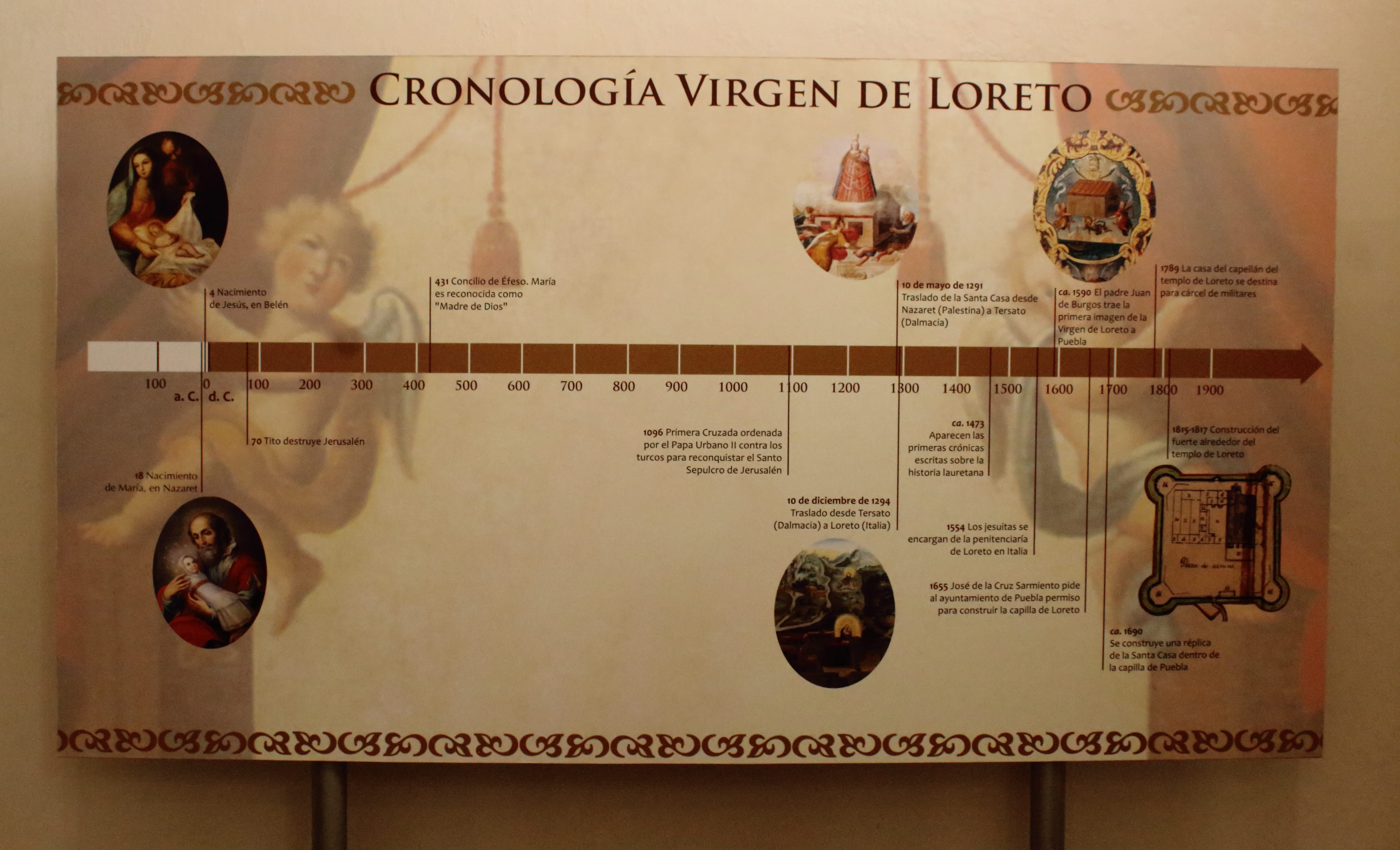 Chronology of the Virgin of Loreto, which is said that the cult began in what was known as Adratica Italia (1296).